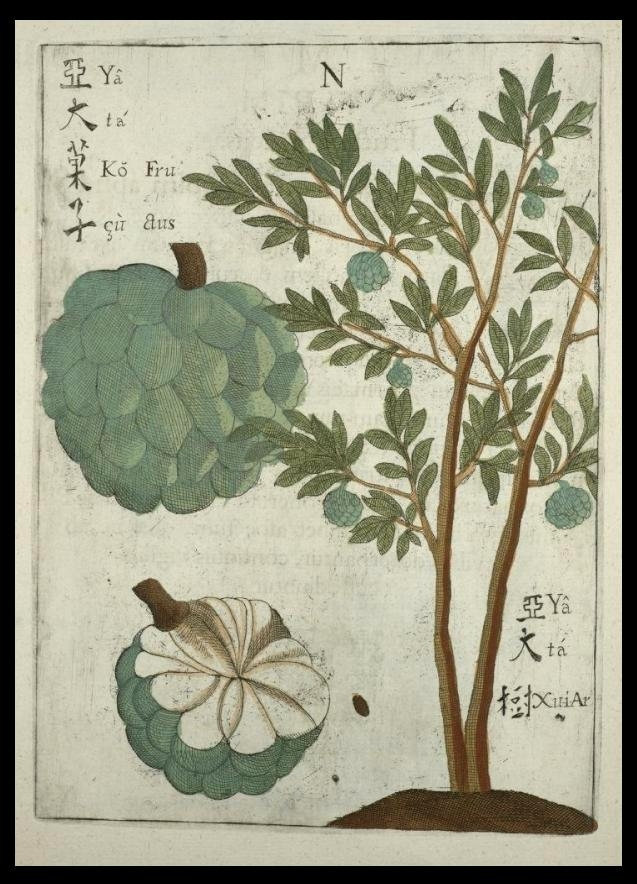 Annona squamosa – 亞大果子 Yá tà Kó ҫù One of the earliest natural history books about China. Jesuit Missionary author. (obviously includes some non-Chinese {and non-floral} species)